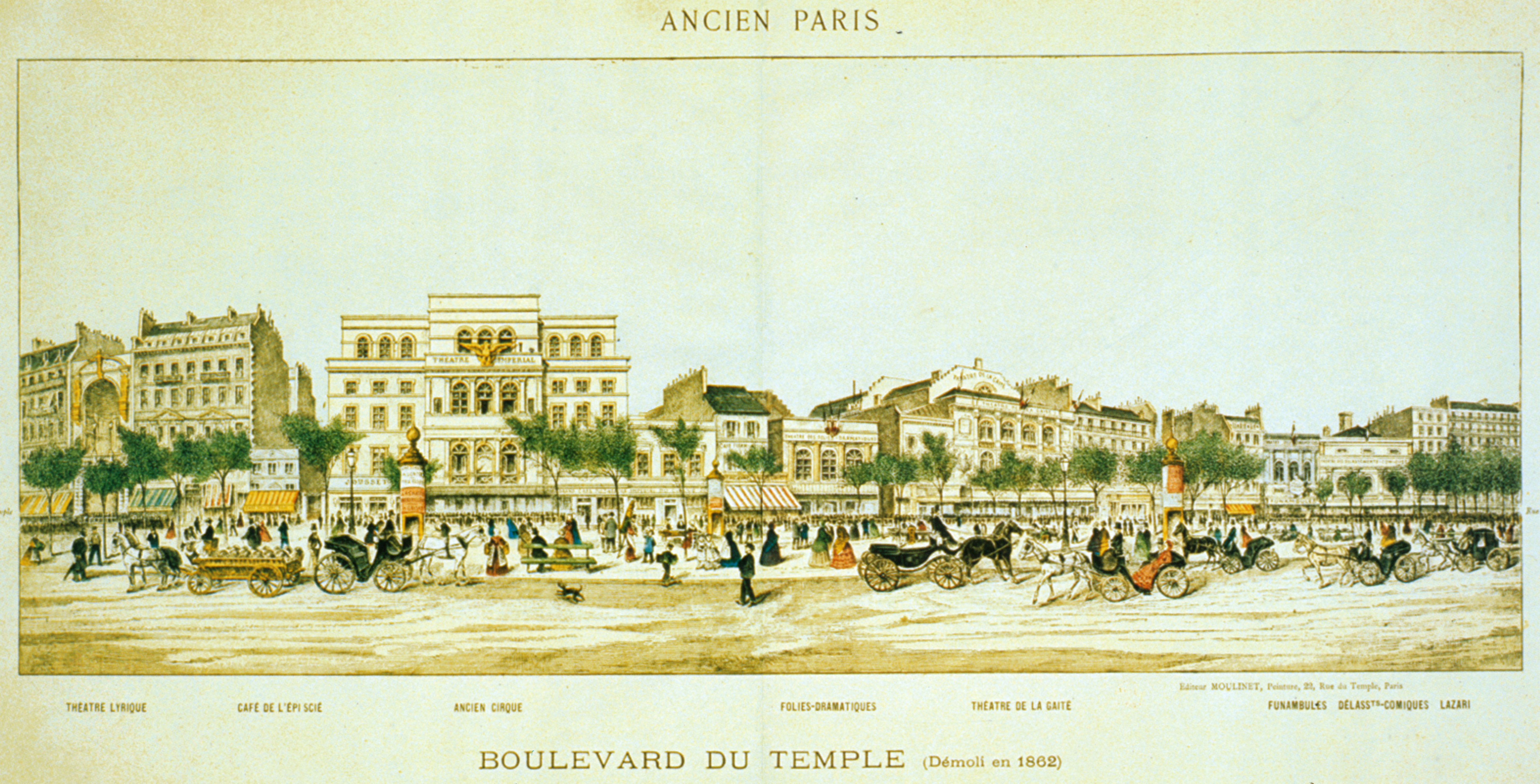 The boulevard du Temple before its demolition in 1862